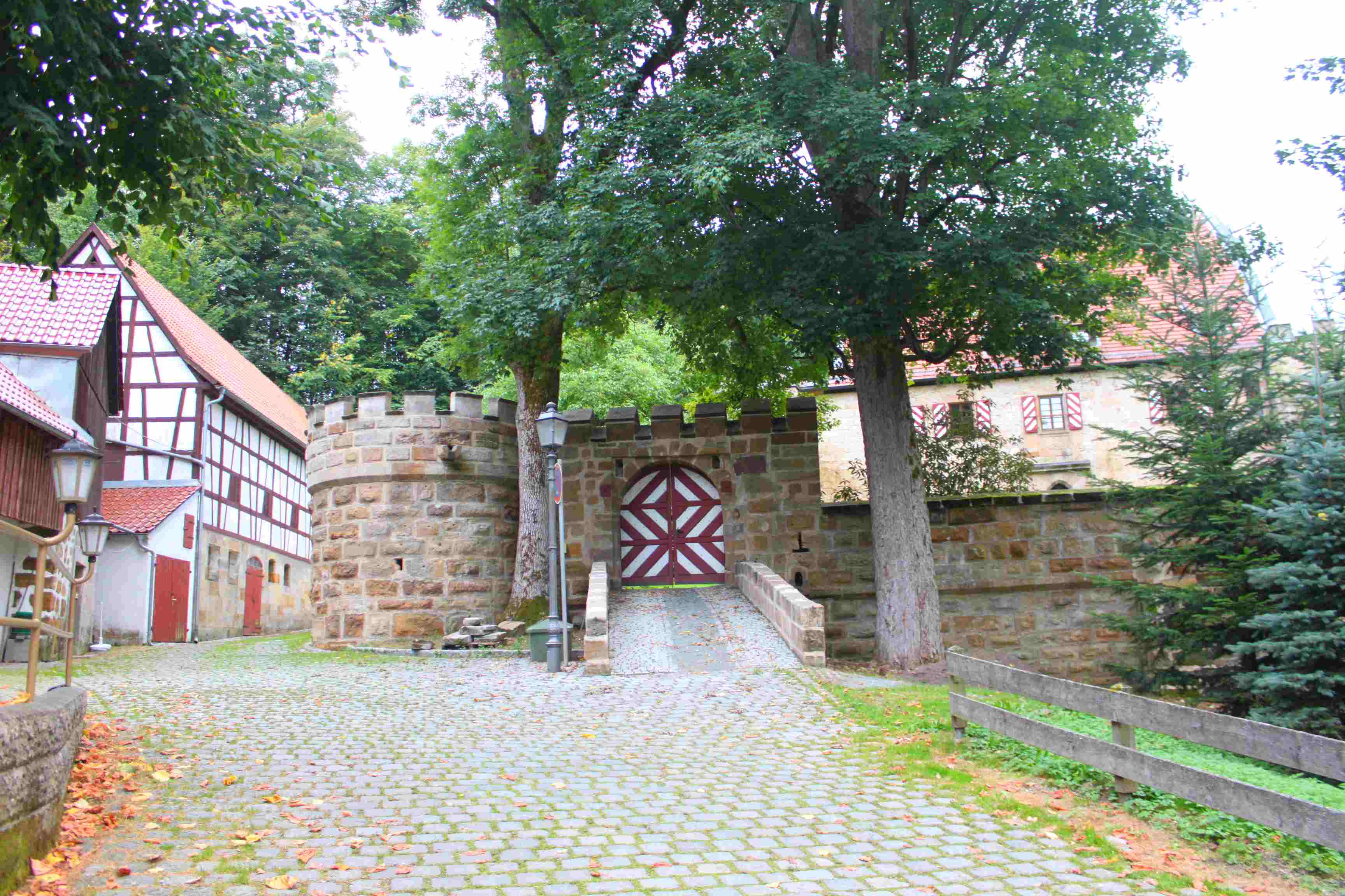 Entry of Buchau castle